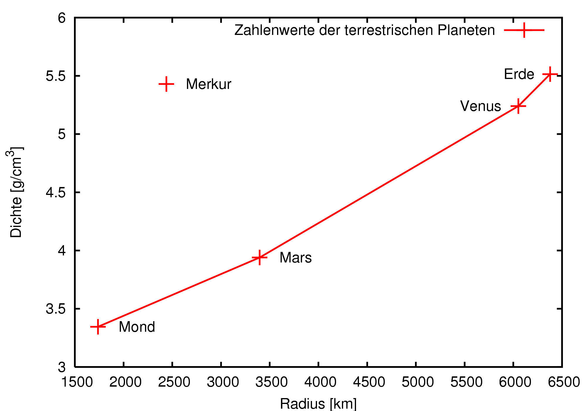 Diagram of radius and density of terrestrical planets.